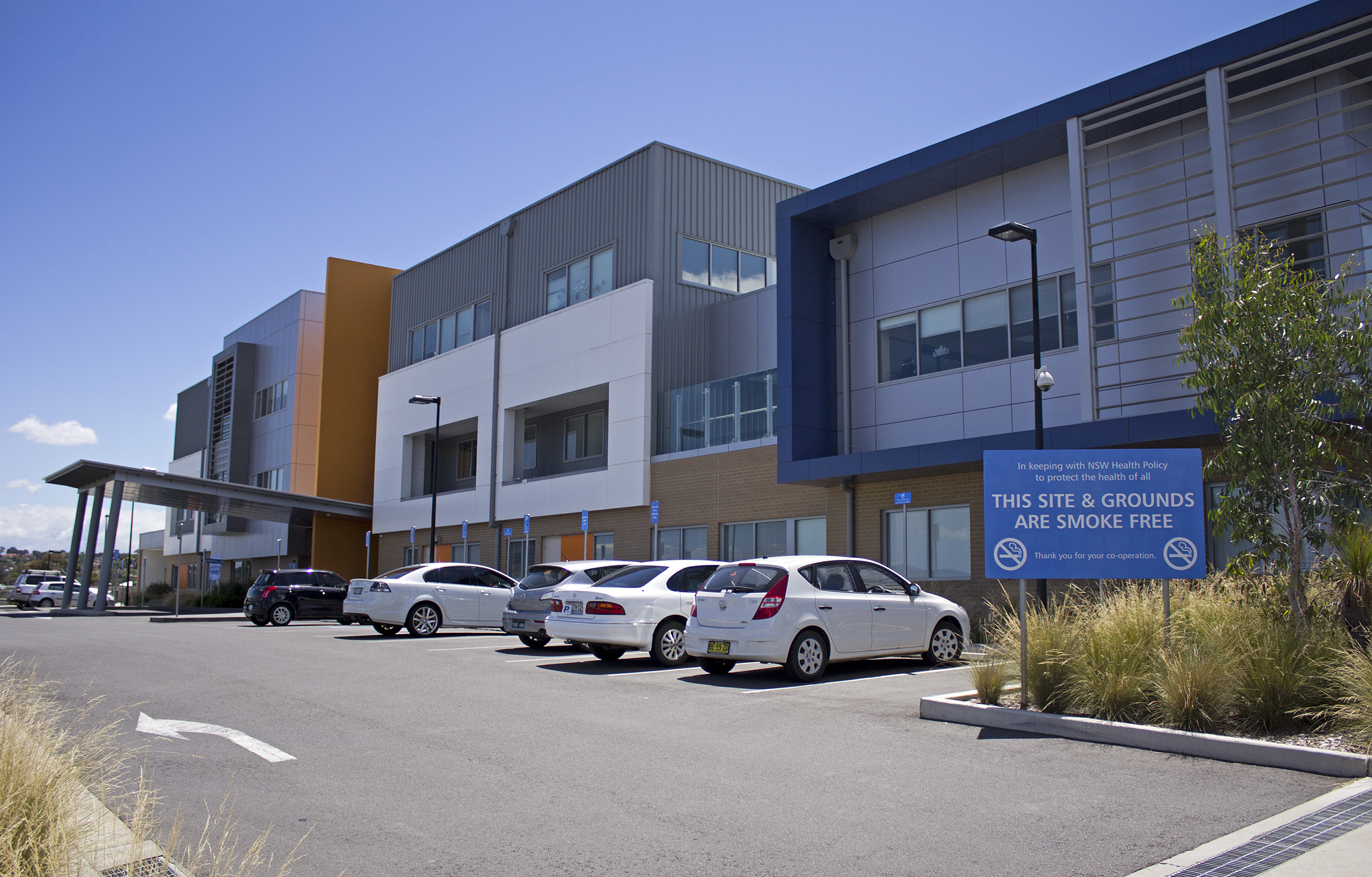 Queanbeyan Hospital viewed from the Collett Street entrance.